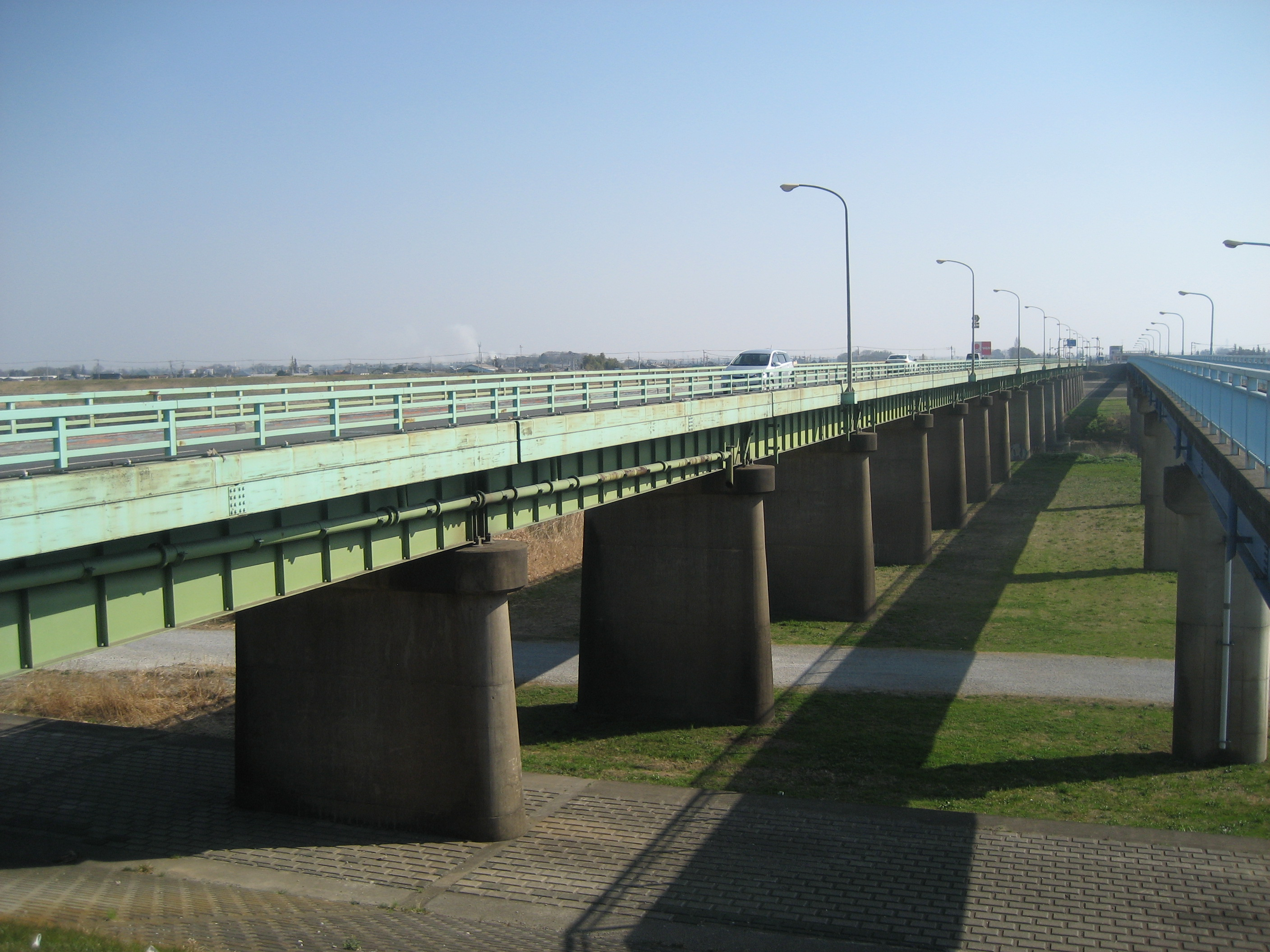 Hoshubana Bridge over the Edo River on the Chiba Prefectural Road and Saitama Prefectural Road Route 183, seen from Kasukabe side